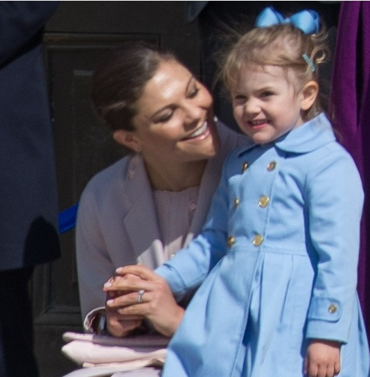 Estelle cropped from source photo